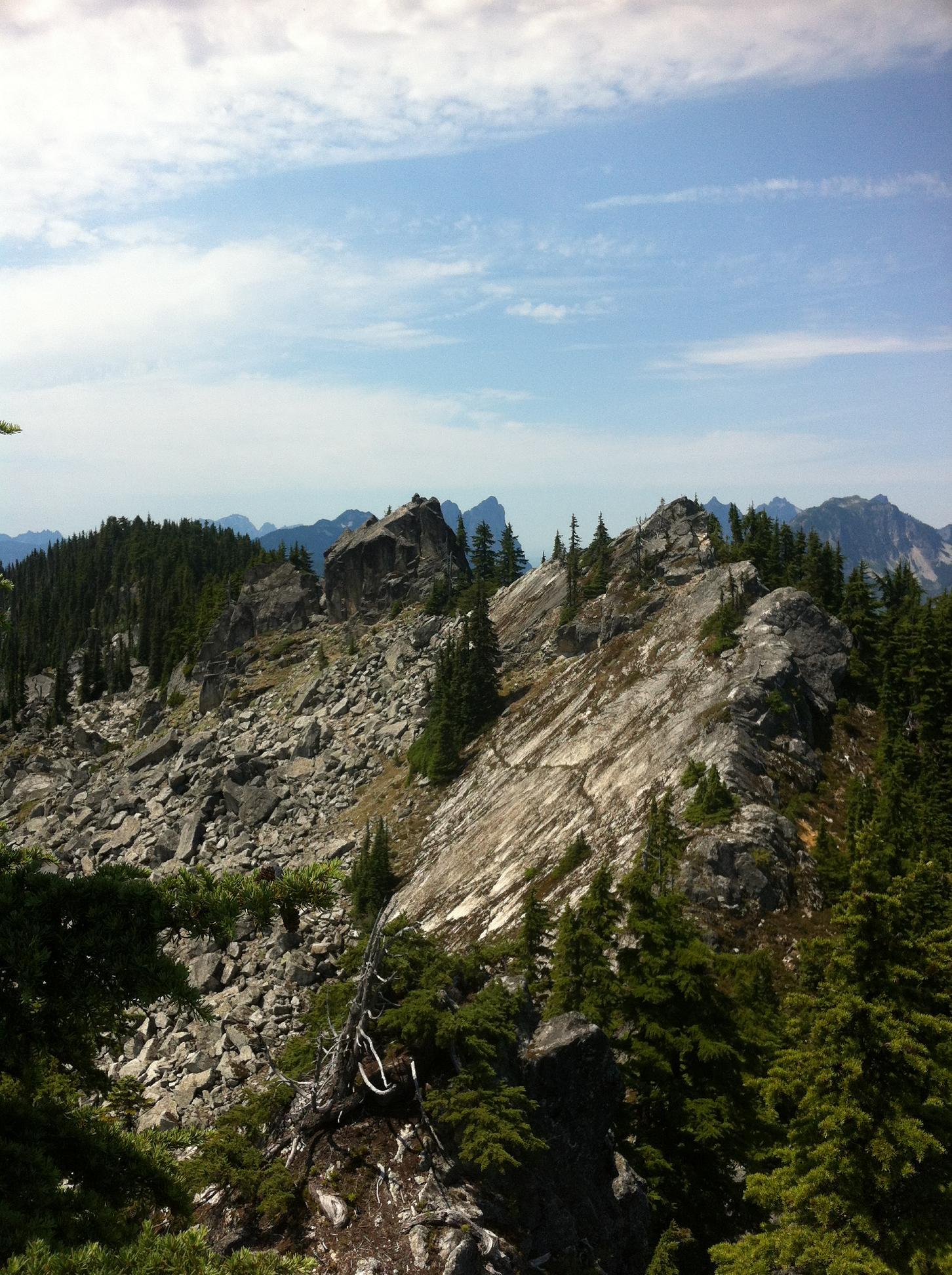 Beckler Peak's West Peak view from East Peak summit.